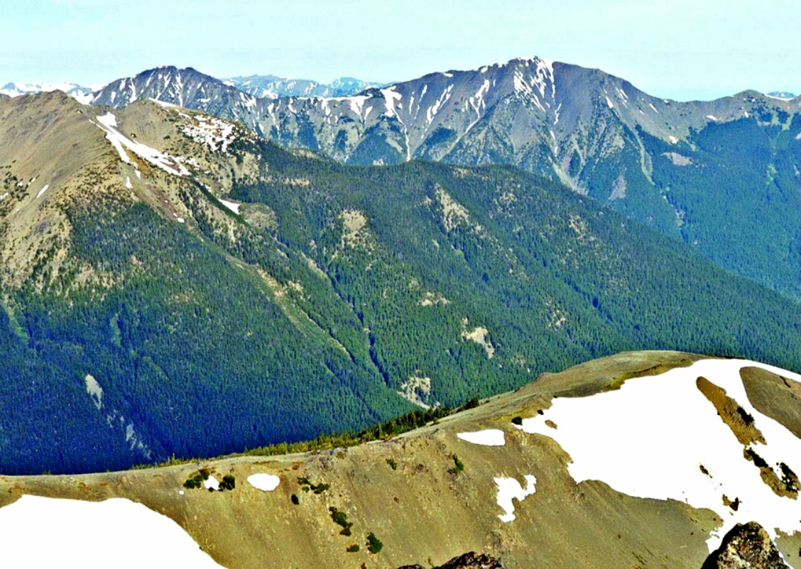 Gray Wolf Ridge seen from Buckhorn Mountain. Olympic Mountains